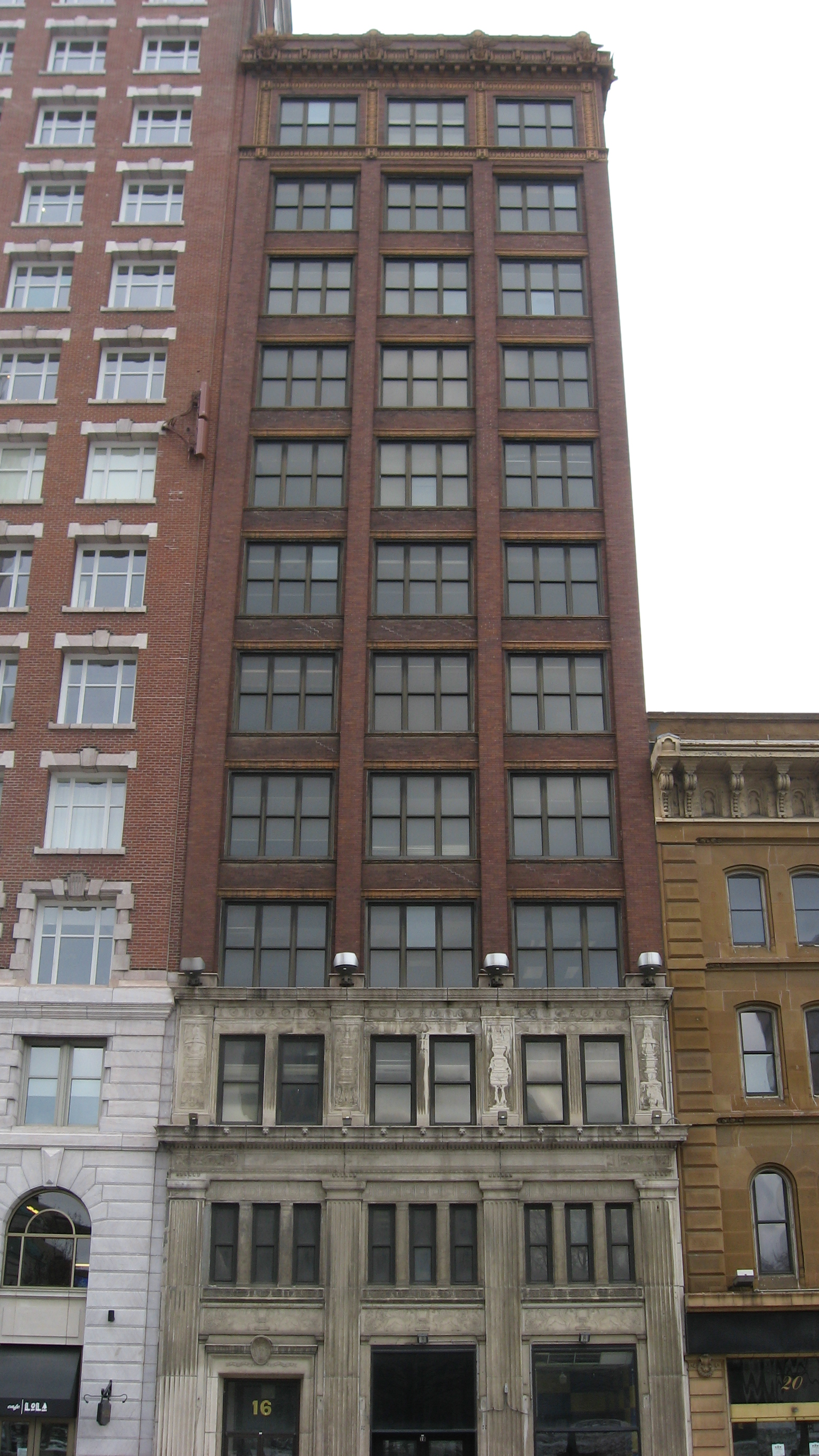 Front of the New Hayden Building, located at 16 E. Broad Street (U.S. Route 40) across from the Ohio Statehouse in downtown Columbus, Ohio, United States. Built in 1901 and formerly the headquarters of the National Football League, it is listed on the National Register of Historic Places.